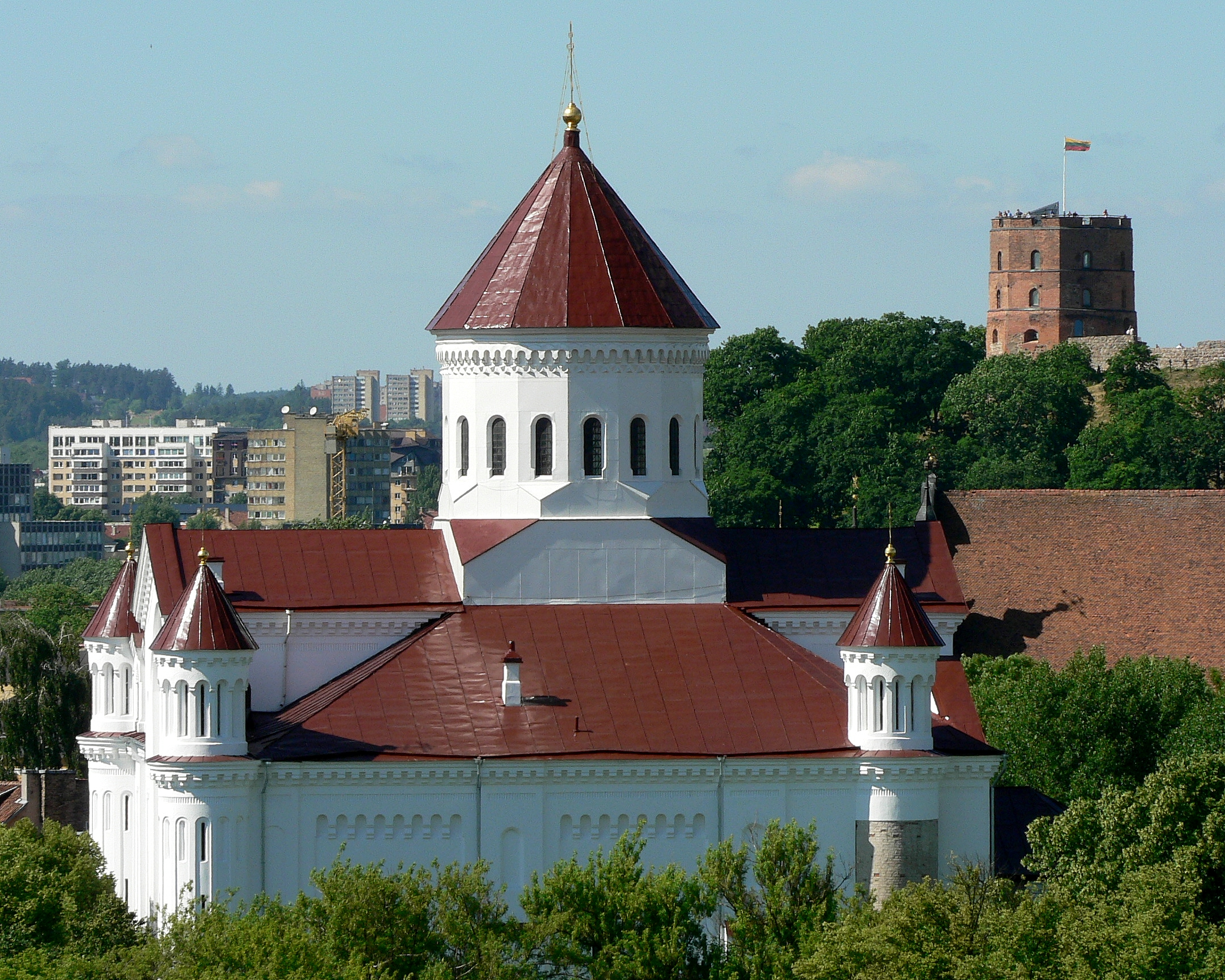 The Orthodox church of Holy Mother of God, Vilnius, Lithuania. Gedimin tower in the back.